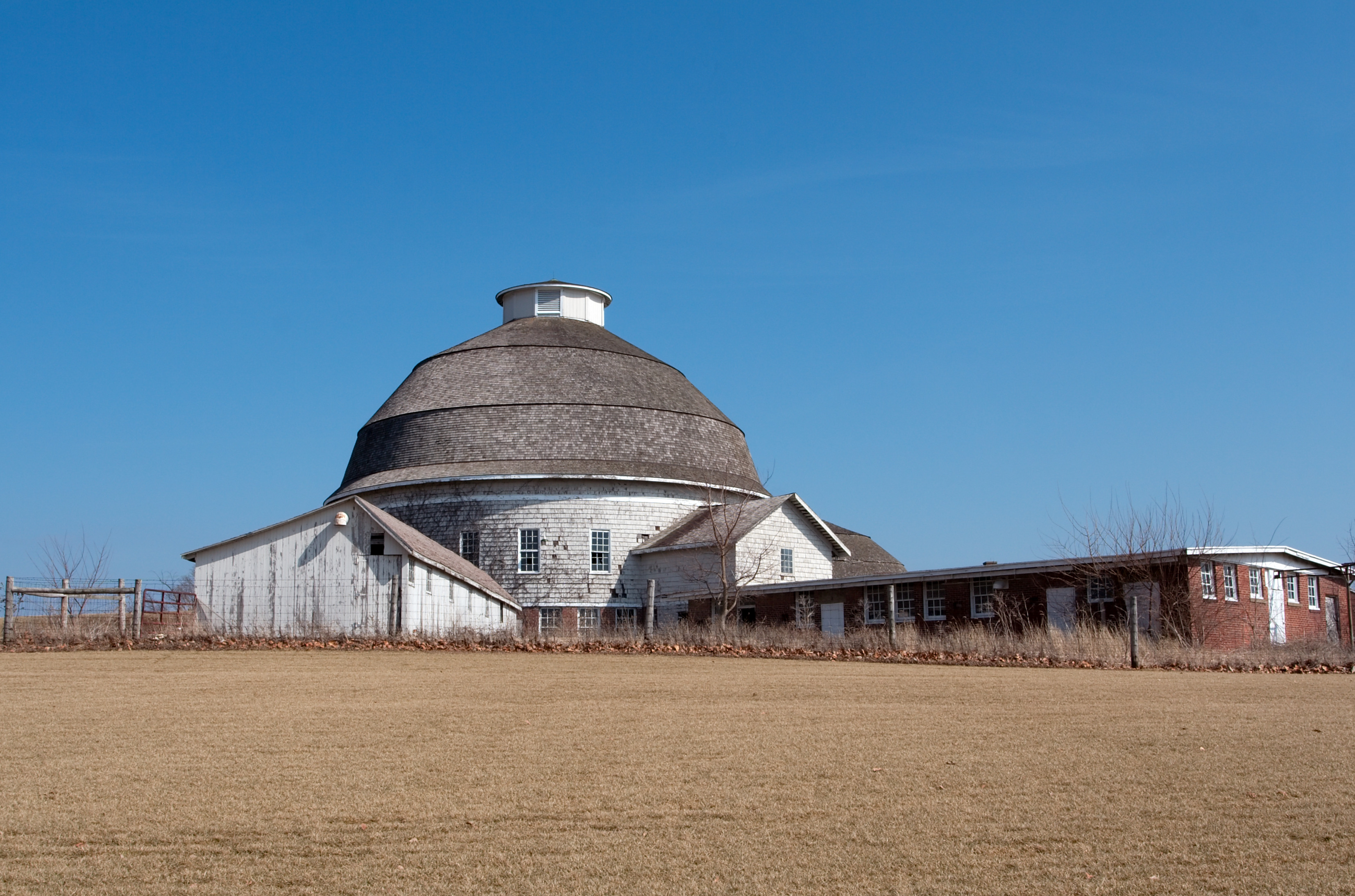 University of Illinois Experimental Dairy Farm Historic District, showing cow shed, and Barn #3 (built in 1912), Urbana, IL